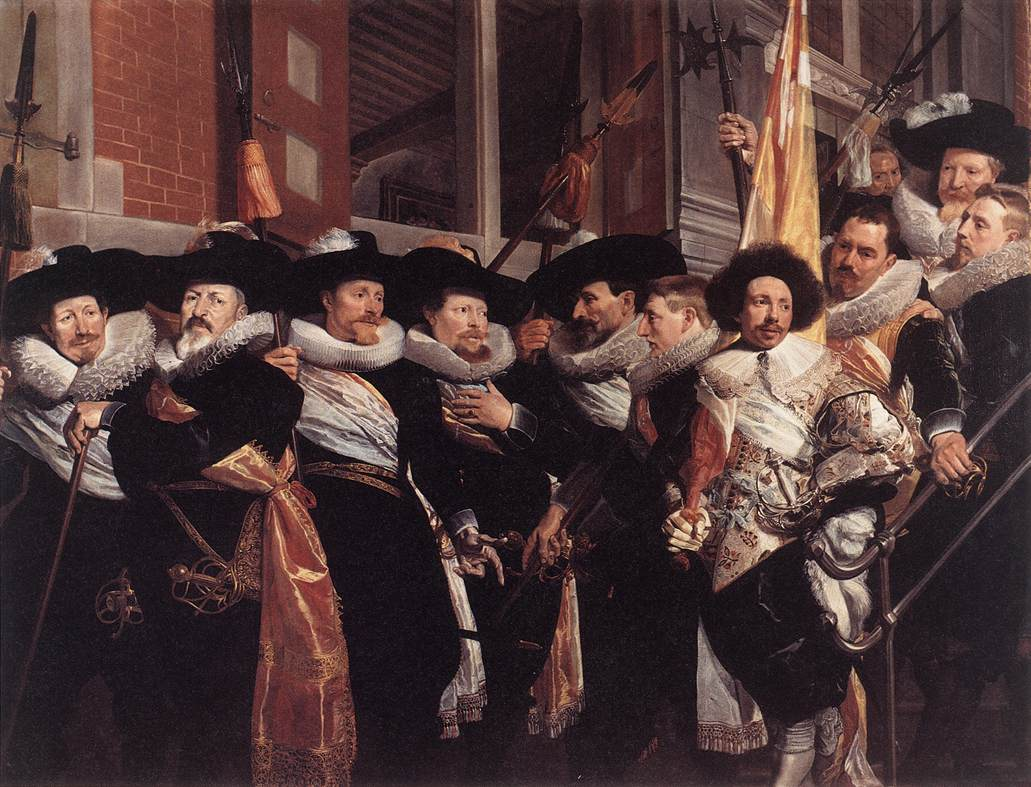 Officers and sergeants of the St Hadrian Civic Guard on their retirement in 1630. Painted in front of their meeting hall, known as the "Kloveniersdoelen", and currently housing the Haarlem public library. Through the window, the corner of a previous group portrait by Cornelis van Haarlem can be seen. In the old Civic Guard halls, many group portraits hung as a memorial to heroic militia deeds, though Haarlem's militia men were seldom in active combat. The men featured are from left to right Captain Pieters Maertensz Oudewaagh, Colonel Pieter Jacobsz Olycan, Captain Pieters Maertensz Oudewaagh, Captain Dirck Herculesz Schatter, Captain Jonas de Jongh, Lieutenant Jan Willemsz Beelt, Lieutenant Florens Pietersz van der Hoeff, Ensign Salomon Colterman, Sergeant Nicolaes Olycan, Kastelein (concierge) Willem Ruychaver, Sergeant Hendrick Claesz Everswijn, and Sergeant Jacob Buttinga.